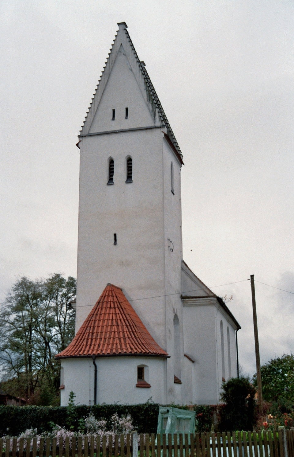 Roman Catholic St. Martin Church in Schainbach, part of Walda, Ehekirchen, District Neuburg-Schrobenhausen, Bavaria, Germany. The church is a listed cultural heritage monument.